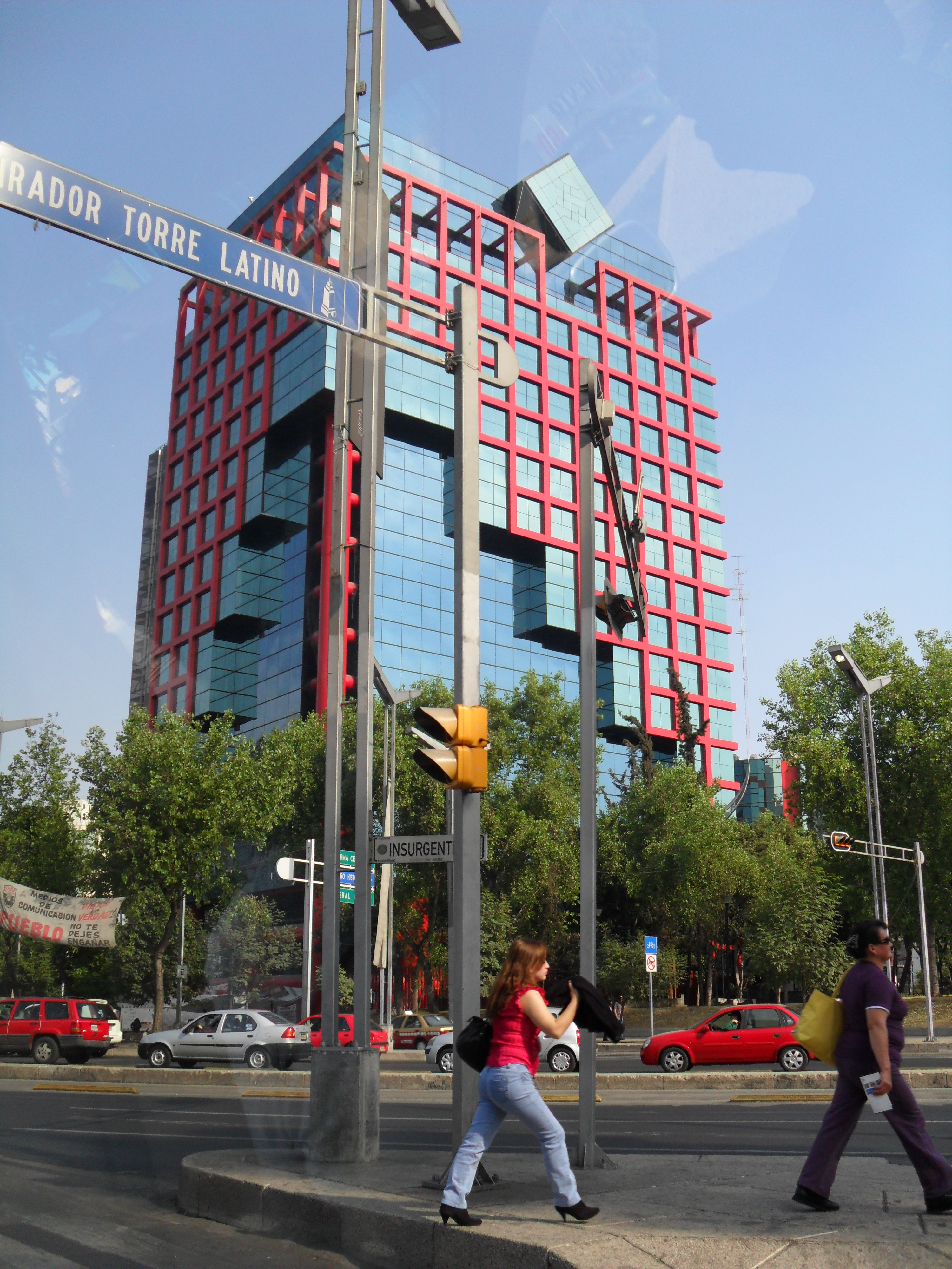 CFE Building in Mexico City